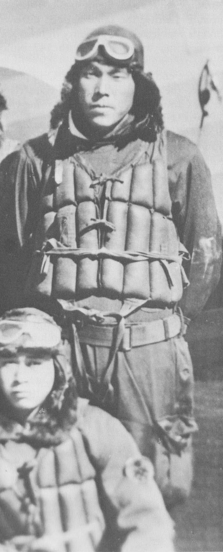 Imperial Japanese Navy fighter ace Lieutenant Junior Grade Satoru Ono. He was officially credited with eight solo fighter combat victories in the Sino-Japanese and Pacific Wars. This picture is of Ono while serving on the aircraft carrier Kaga.